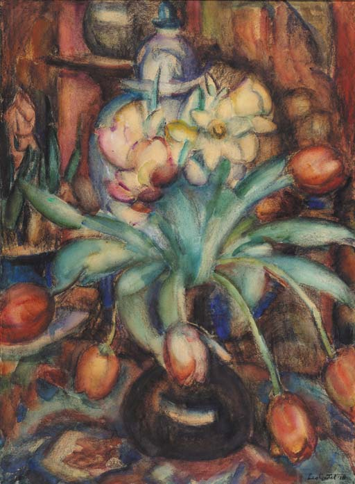 A still life with tulips in a vase. Signed and dated Leo Gestel '18, charcoal and watercolour on paper, 74.5 x 54 cm